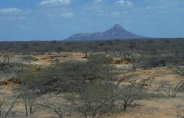 Cerro La Teta, La Guajira Peninsula